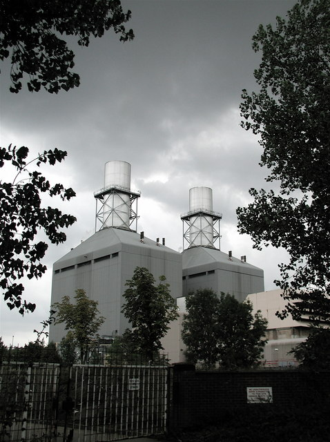 Little Barford Power Station at Gallow Hill, south of St. Neots.